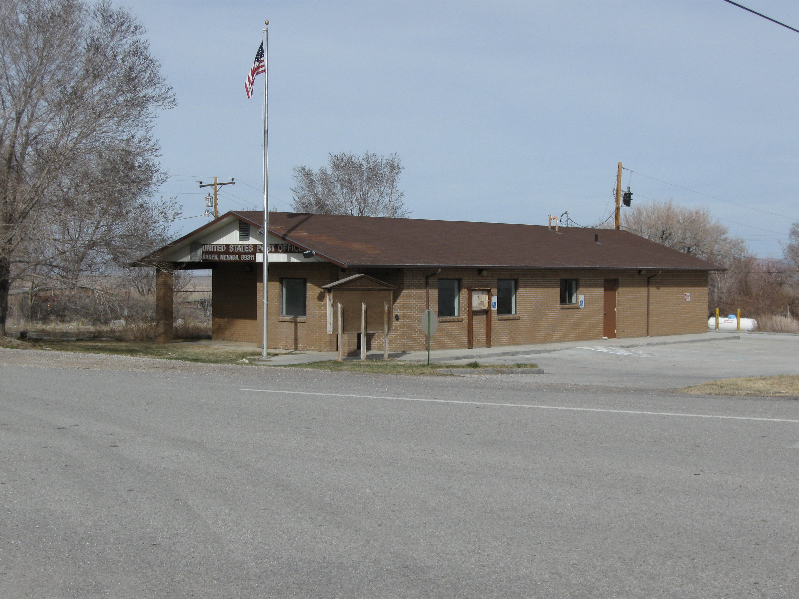 This is the post office in Baker, White Pine County, Nevada. March 2010.